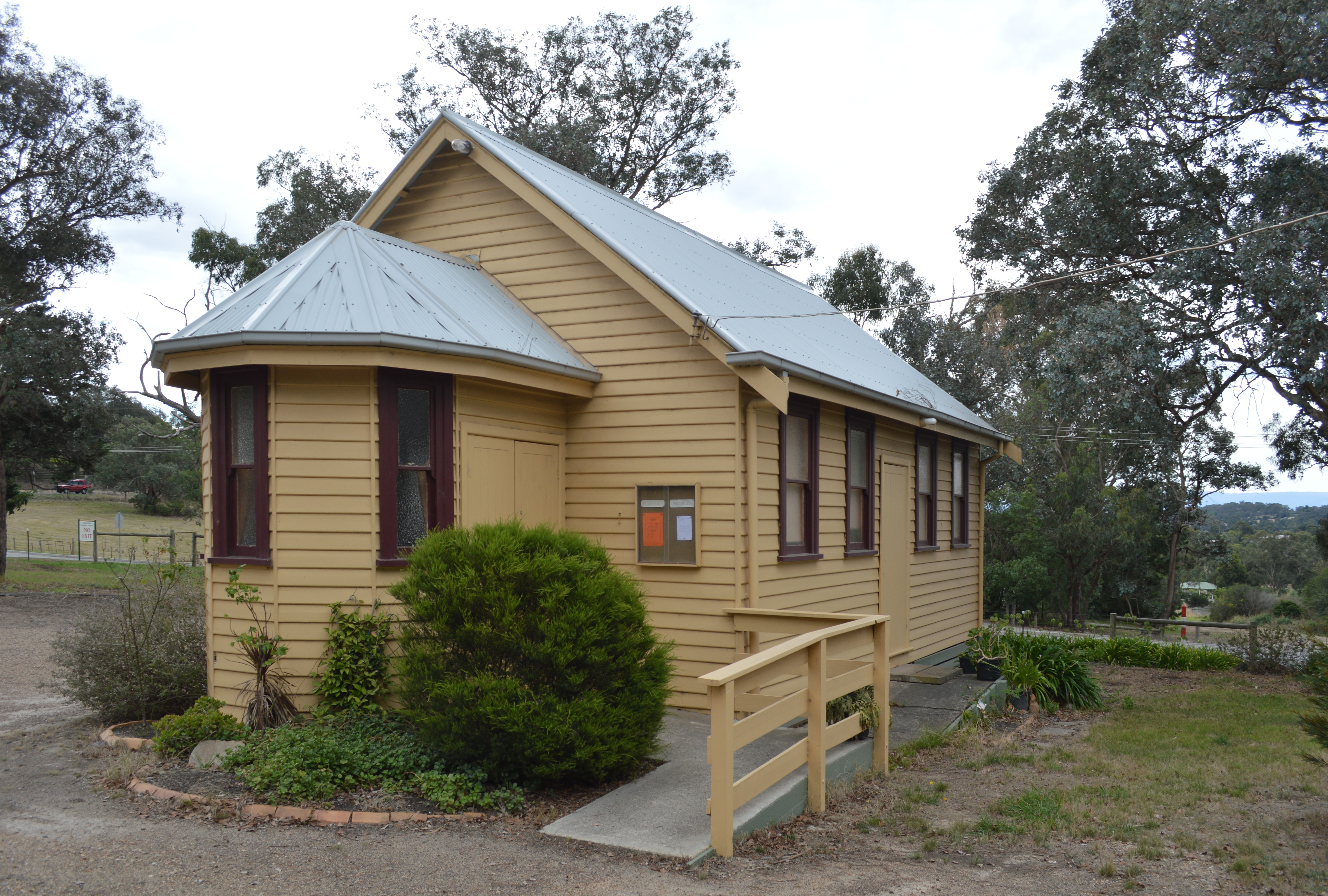 St Michael's Anglican church in Yarrambat, Victoria